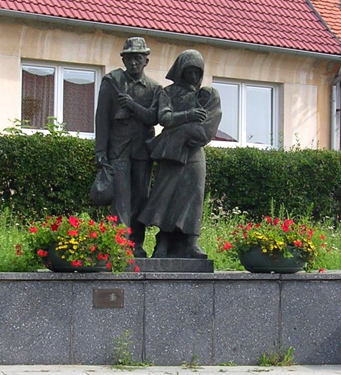 Sedlčany, Příbram District, Central Bohemian Region, the Czech Republic. "Homeless people", a memorial of displacement of Sedlčany surroudings people during WWII through SS military area.